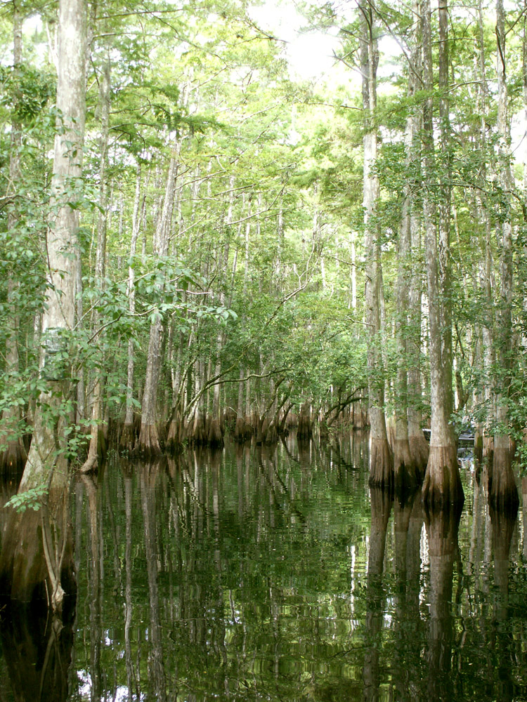 A stand of Baldcypress trees in the Tosohatchee Wildlife Management Area along the St. Johns River